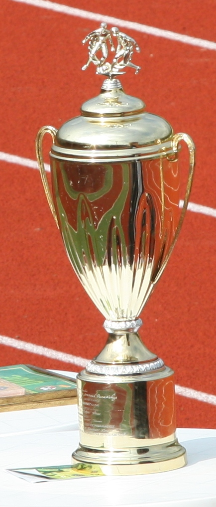 Lithuanian Football Federation Cup before 2010 Final.